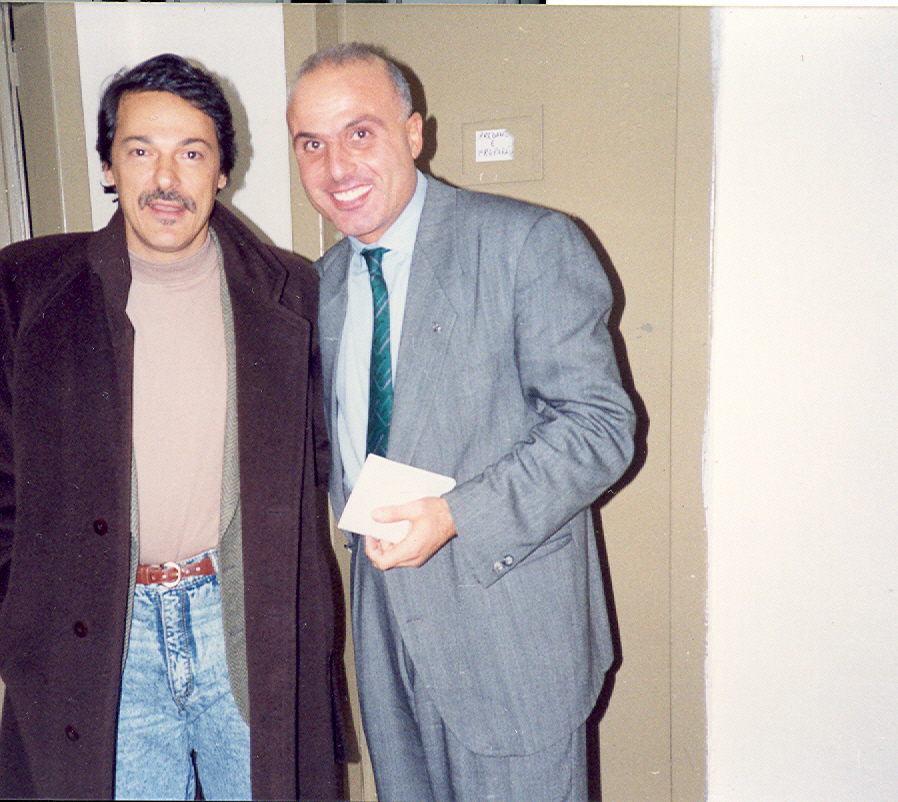 The italian music journalist with the singer Toquinho at the International's Guitar festival